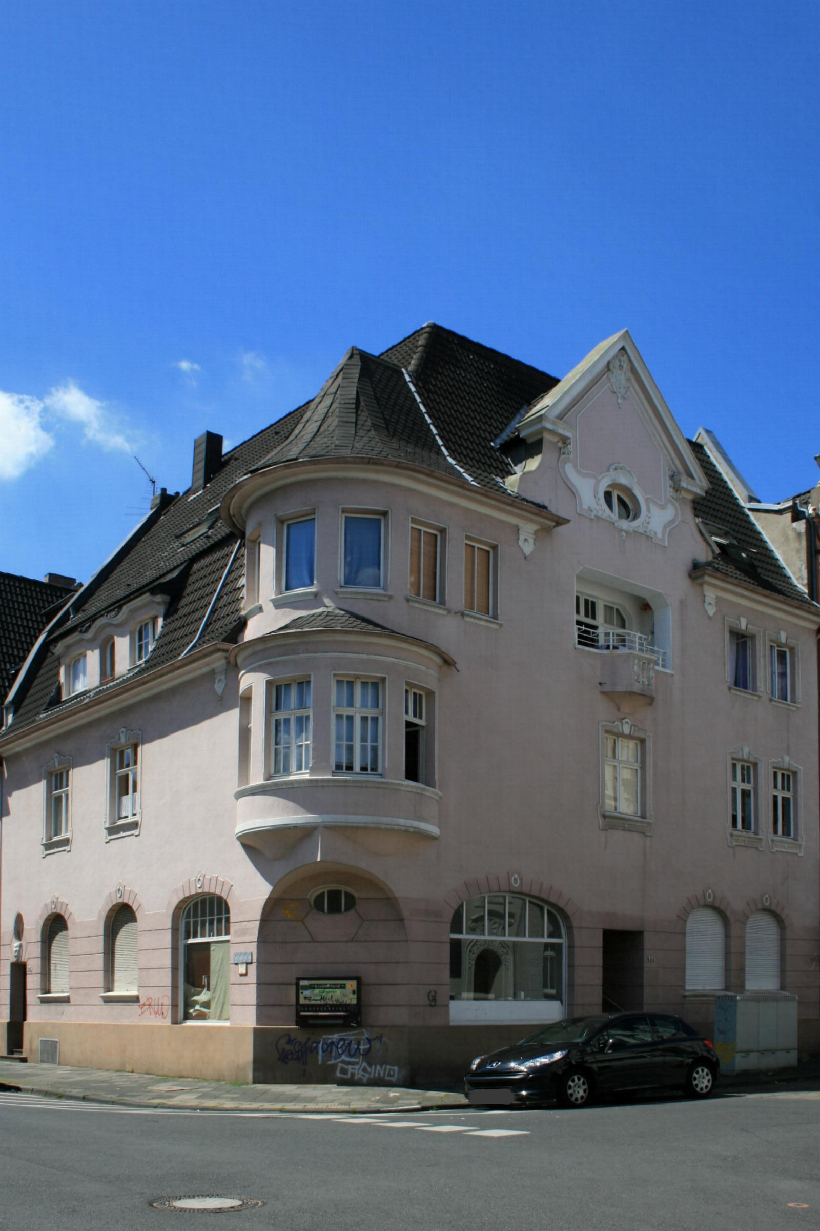 Cultural heritage monument No. L 008 in Mönchengladbach